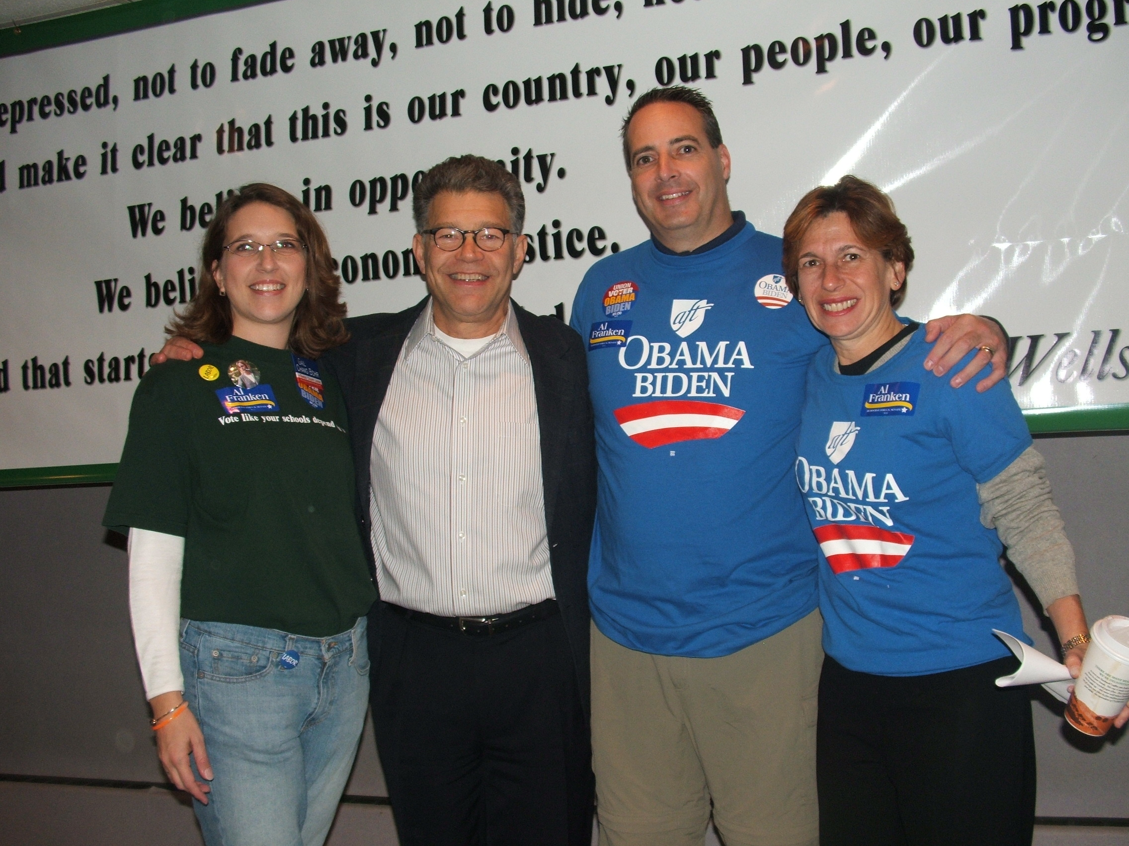 Education Minnesota poses with Al Franken at pancake breakfast, pre-labor walk. Mary Catherine Ricker, Tom Dooher MN Education Minnesota President, AFT President Randi Weingarten